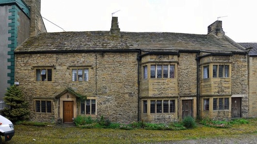 "Whitfield Place, Front Street, Wolsingham Three cottages, the left-most dated 1677 and with the initials 'DM'. They were restored c1971"